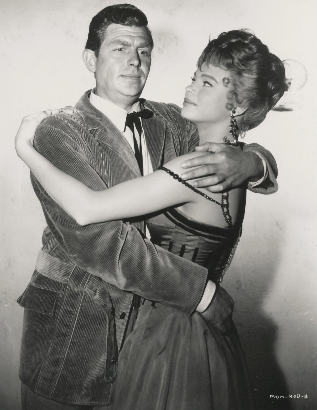 Andy Griffith & Juliet Prowse in The Second Time Around - publicity still (cropped)